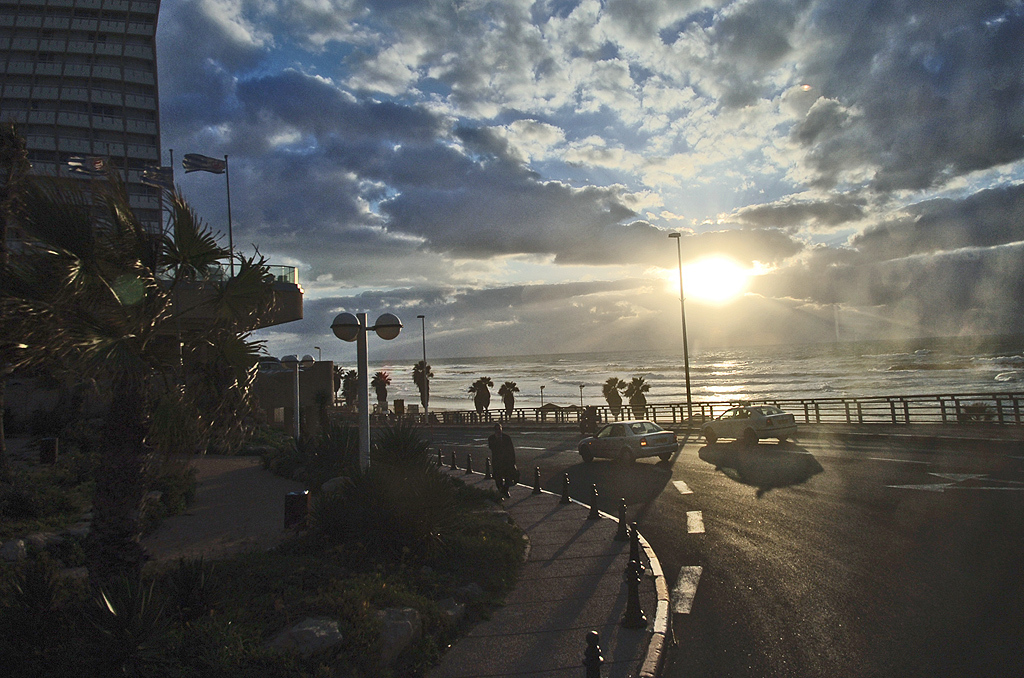 Tel Aviv the Sea